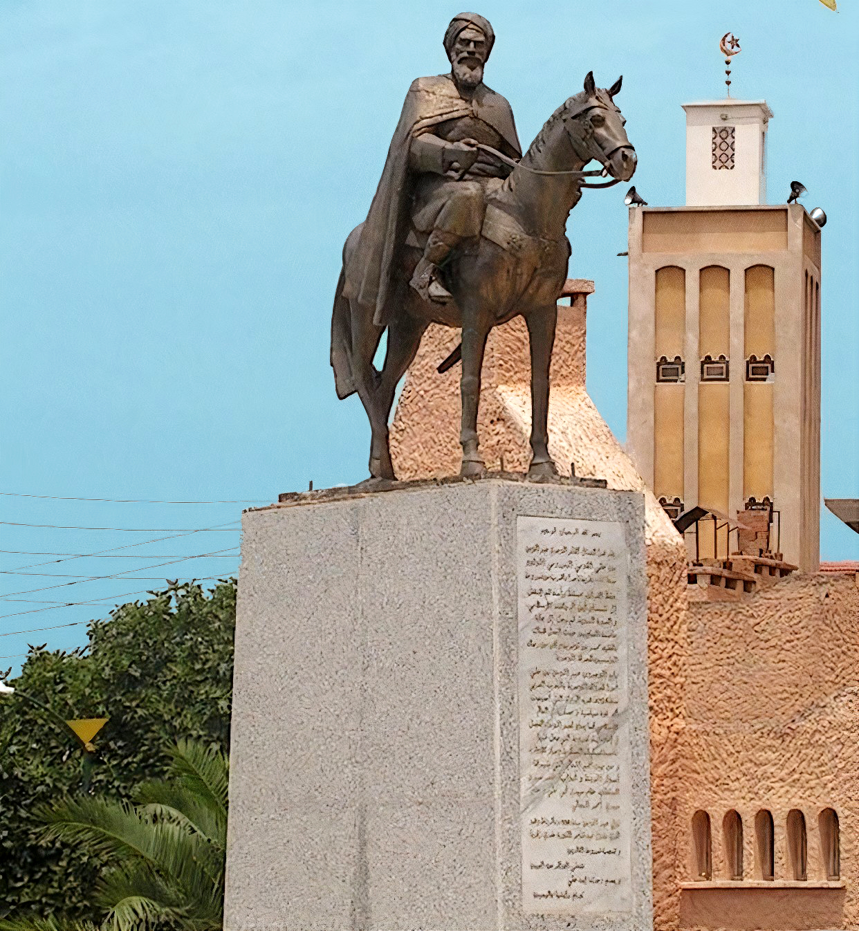 Abdul-Mu'min ben Ali Agoumi Statue in Nedroma (Algeria)